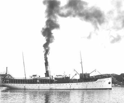 Norwegian coastal express ship (Hurtigruten) DS Richard With in Svolvær.